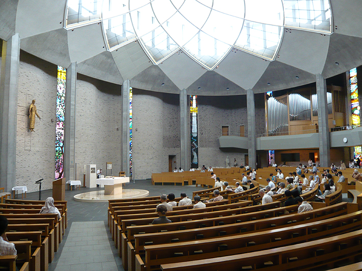 St. Ignatius church in Tokyo